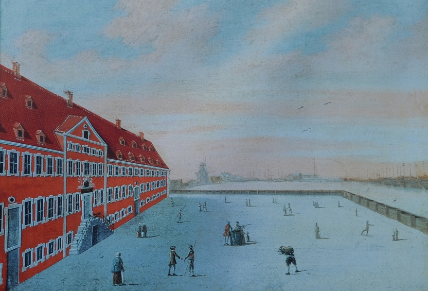 Kvæsthuset at Nyhavn/Sankt Annæ Plads in Copenhagen, Denmark